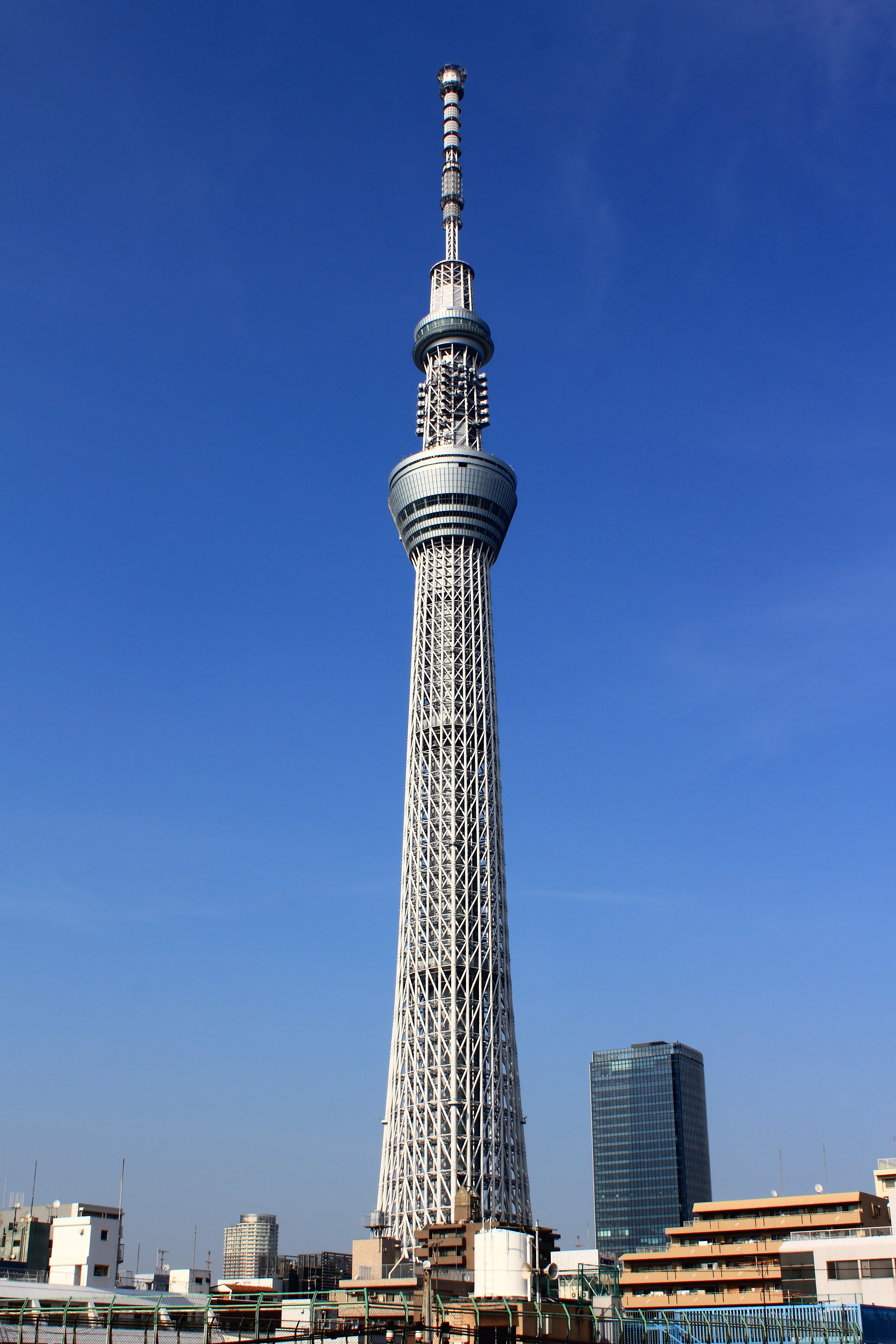 Tokyo Sky Tree 2012, Oshiage station in Tokyo; opened to the public on 22 May 2012